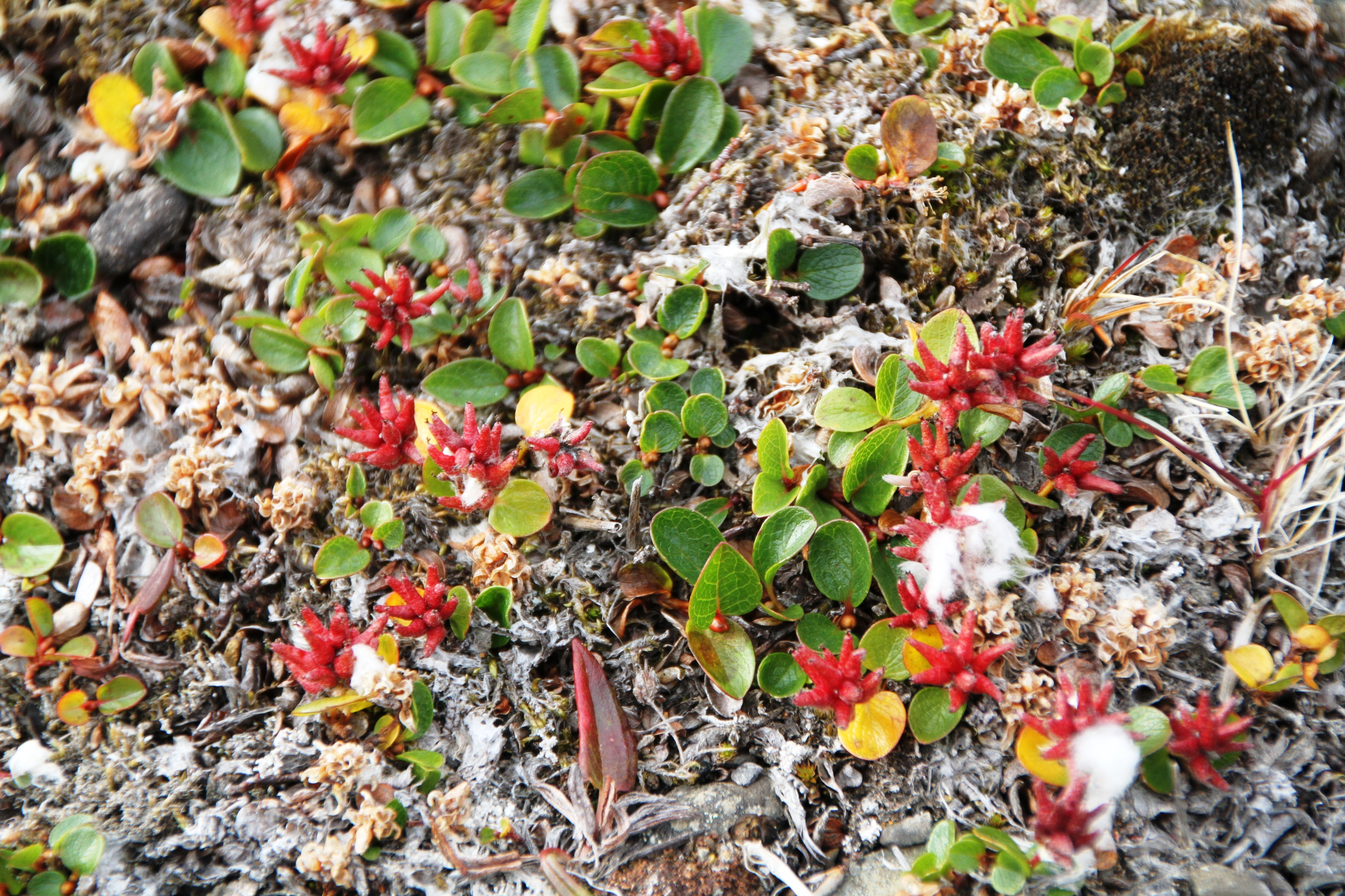 Salix polaris (norwegian: polarvier) observed close to Longyearbyen, central Spitsbergen (Svalbard).